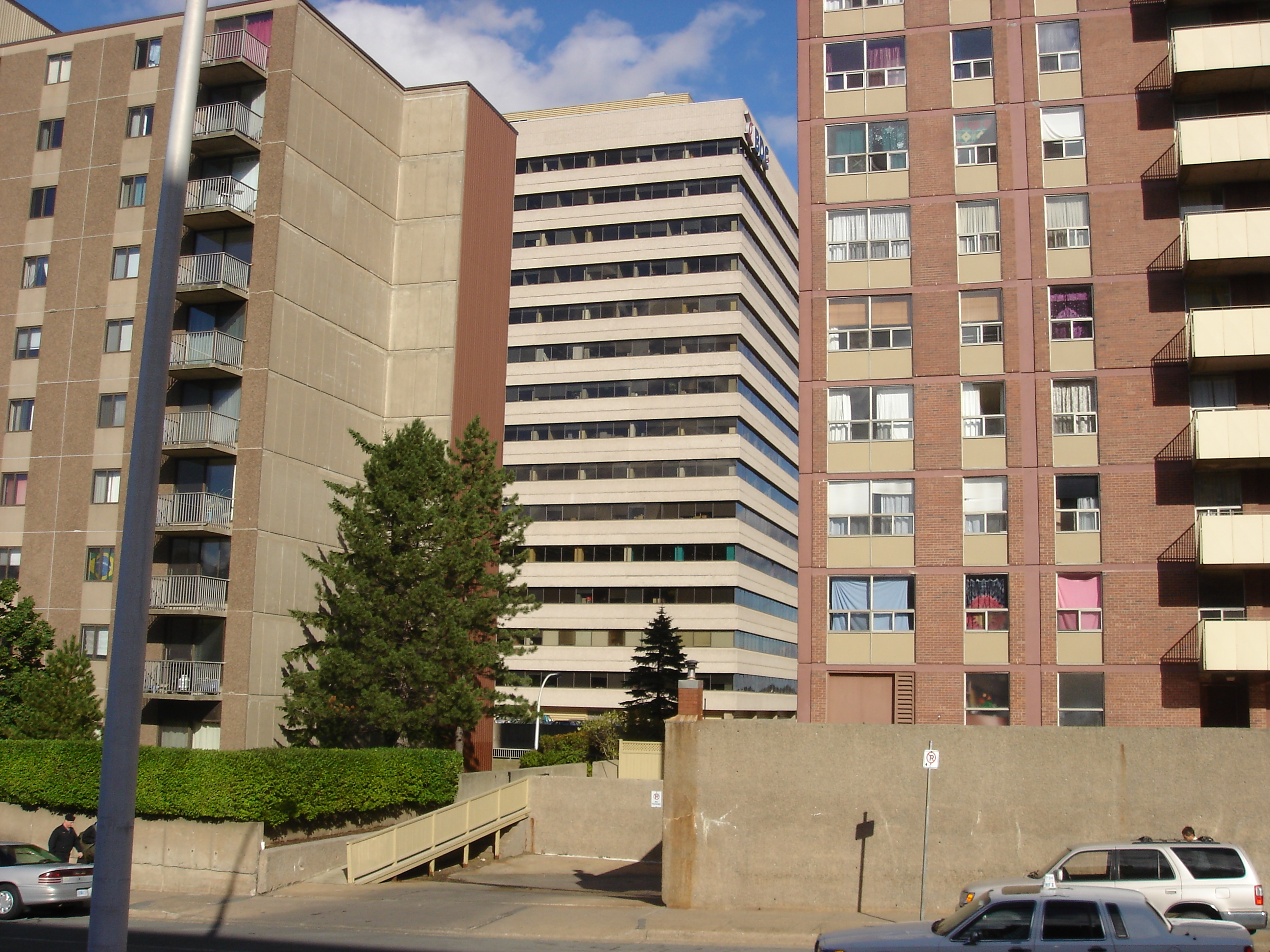 I am the author of this photo